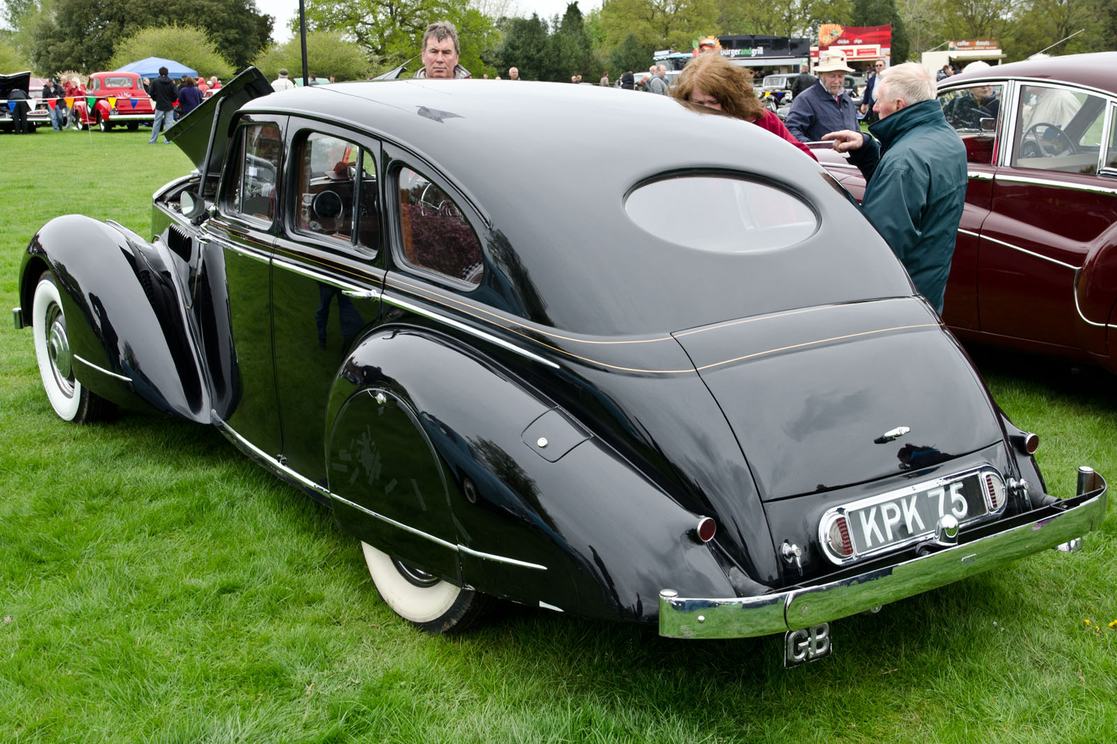 Invicta Black Prince 1946 (DVLA) first registered 17 October 1946, 2998cc Vale Royal Classic Car Show at Arley Hall 12/05/2013